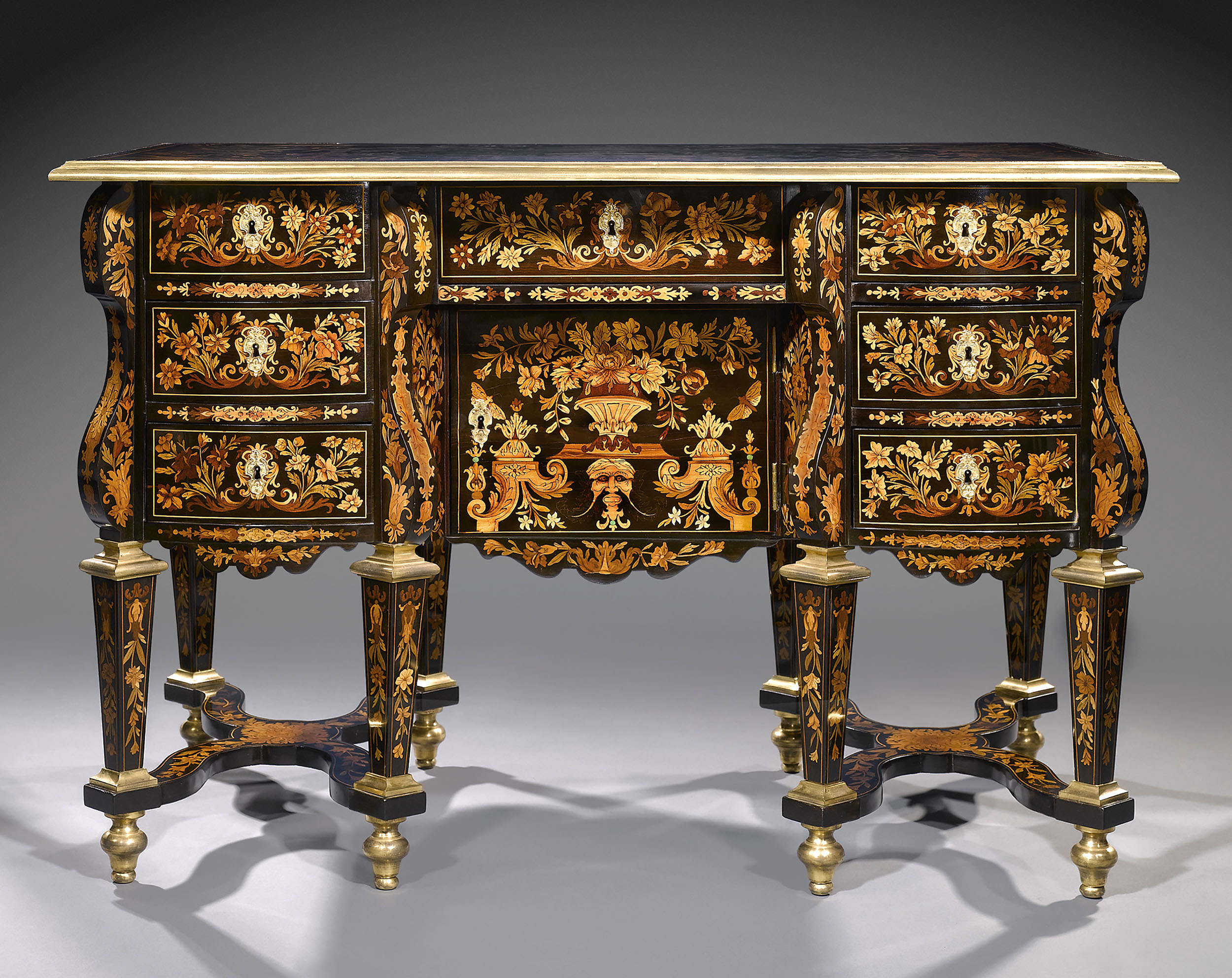 Knee-Hole Desk attributed to Pierre Golle. Circa 1680